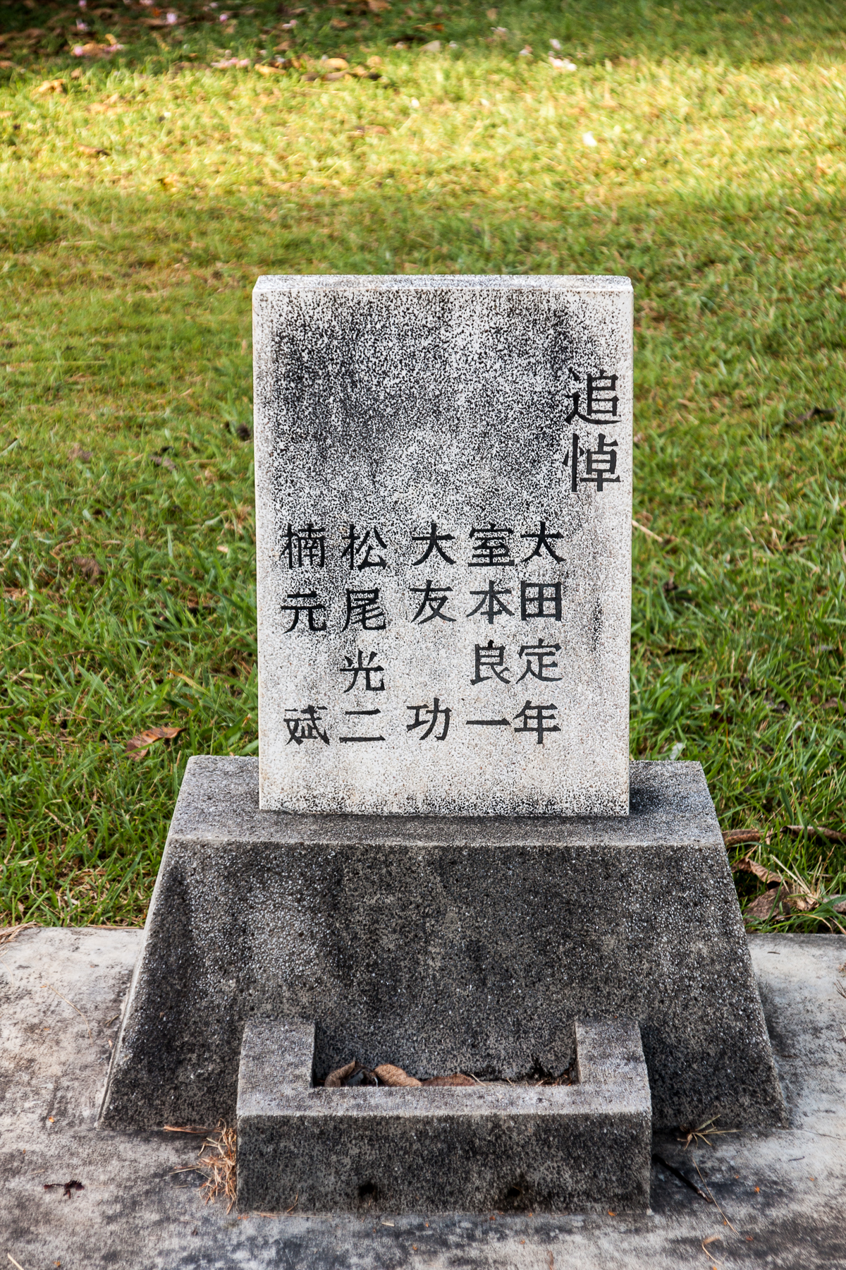 Tawau, Sabah: Japanese War Memorial & Cemetery (Tugu Peringatan Perang Jepun Tawau)